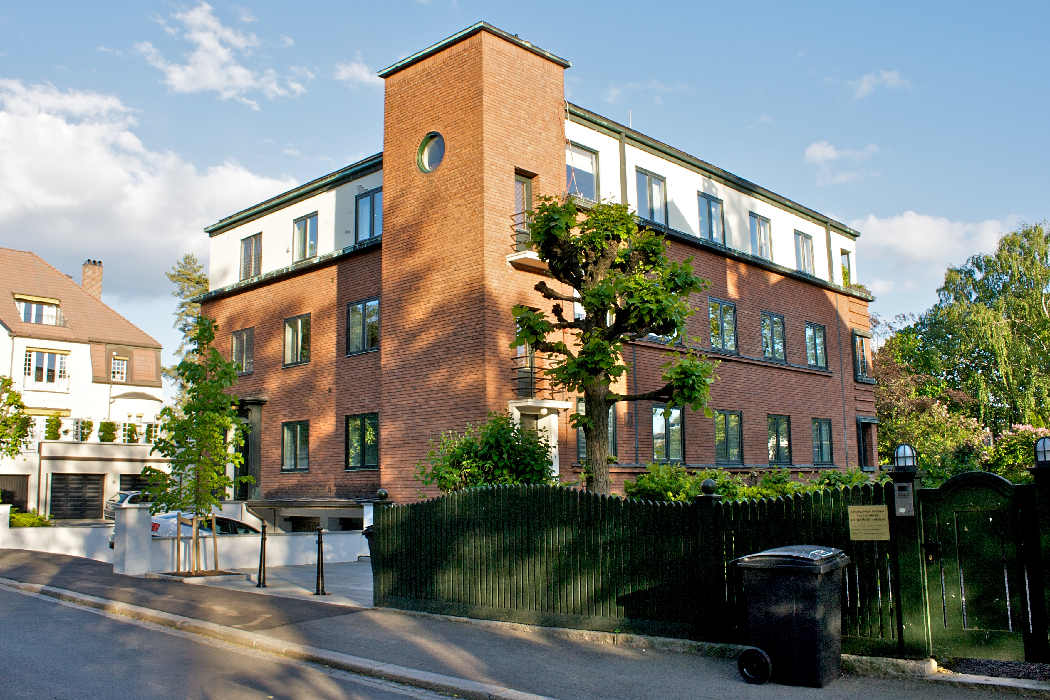 Apartment building in Fritzners gate 10, Oslo, Norway. From 1930, architect Hans Siegwardt Backer Fürst.